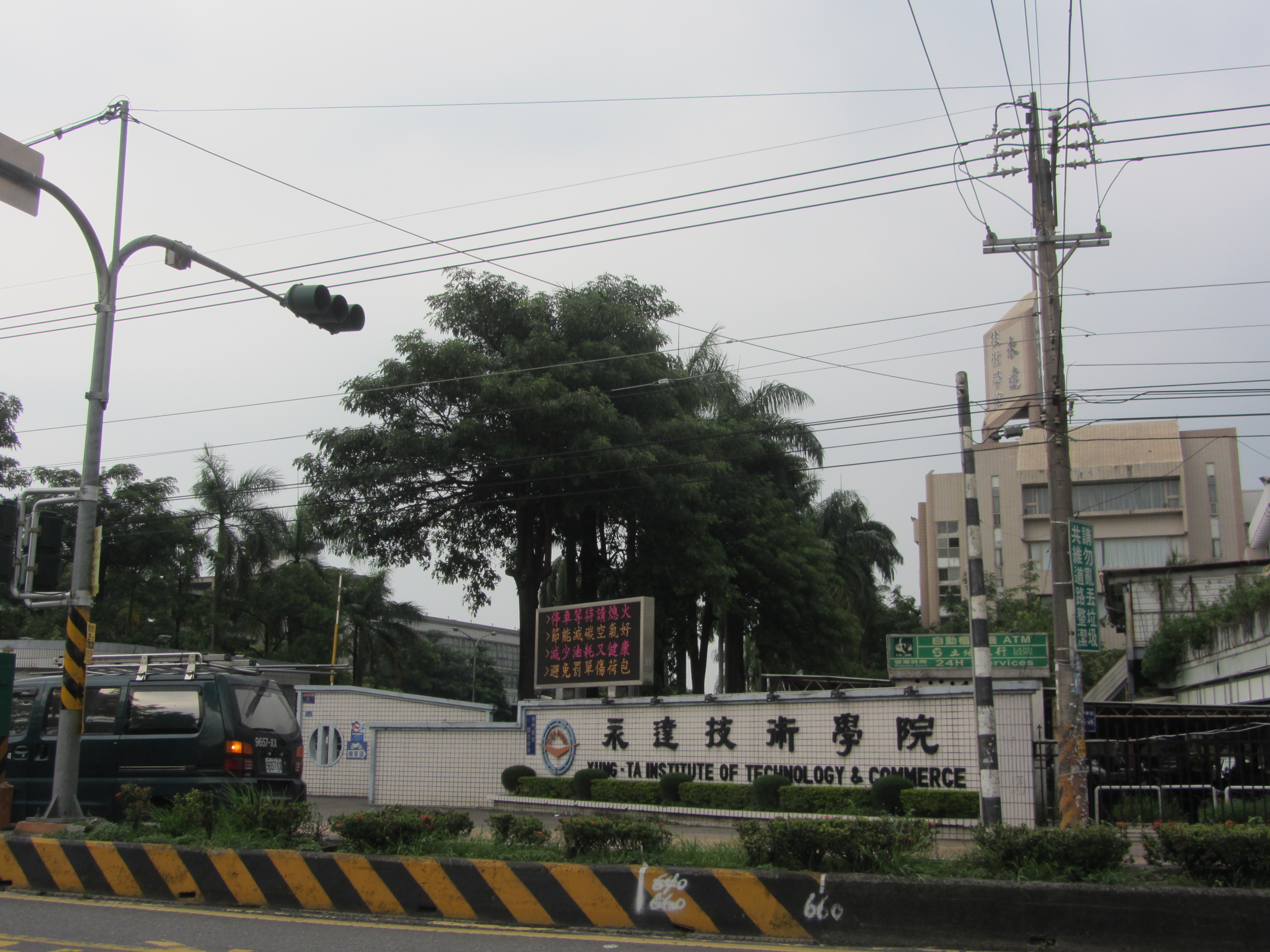 The main gate of Yung Ta Institute of Technology and Commerce 中文（台灣）: 永達技術學院校門